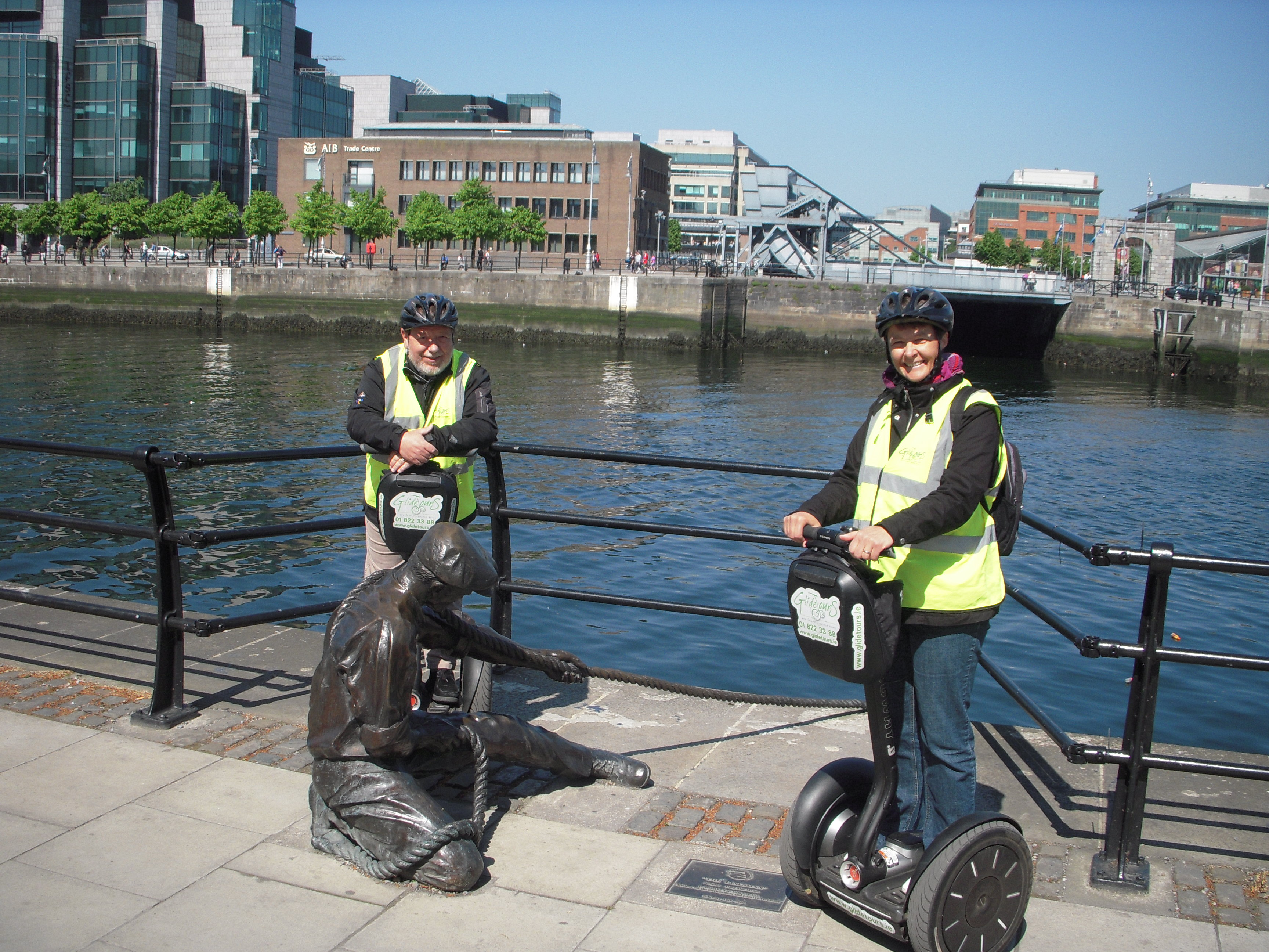 Segways besides the statue "The Linesman" and River Liffey in Dublin, 28 April 2011